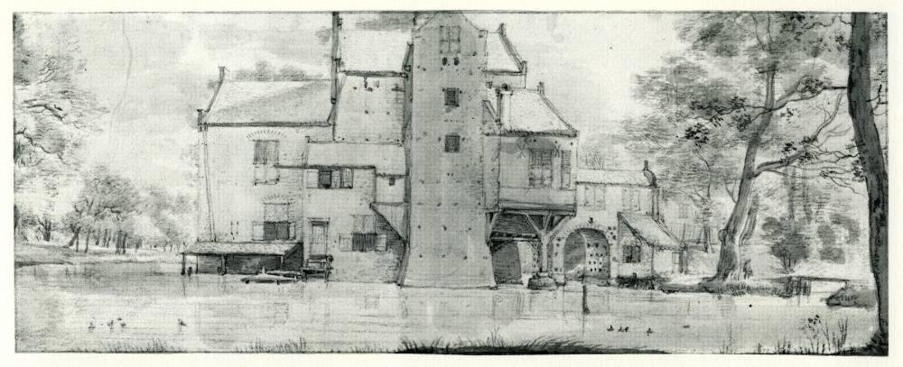 Castle Hagestein